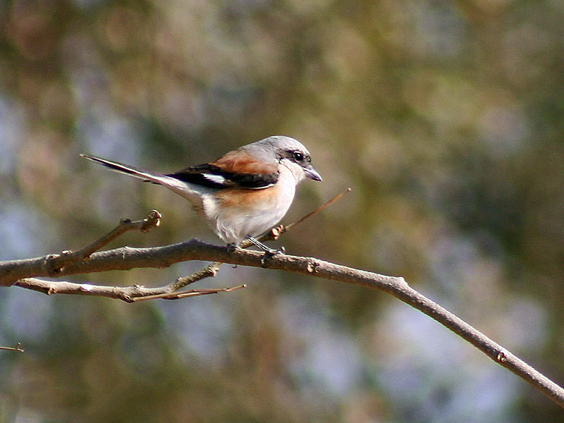 Bay-backed Shrike Lanius vittatus at Hodal in Faridabad District of Haryana, India.